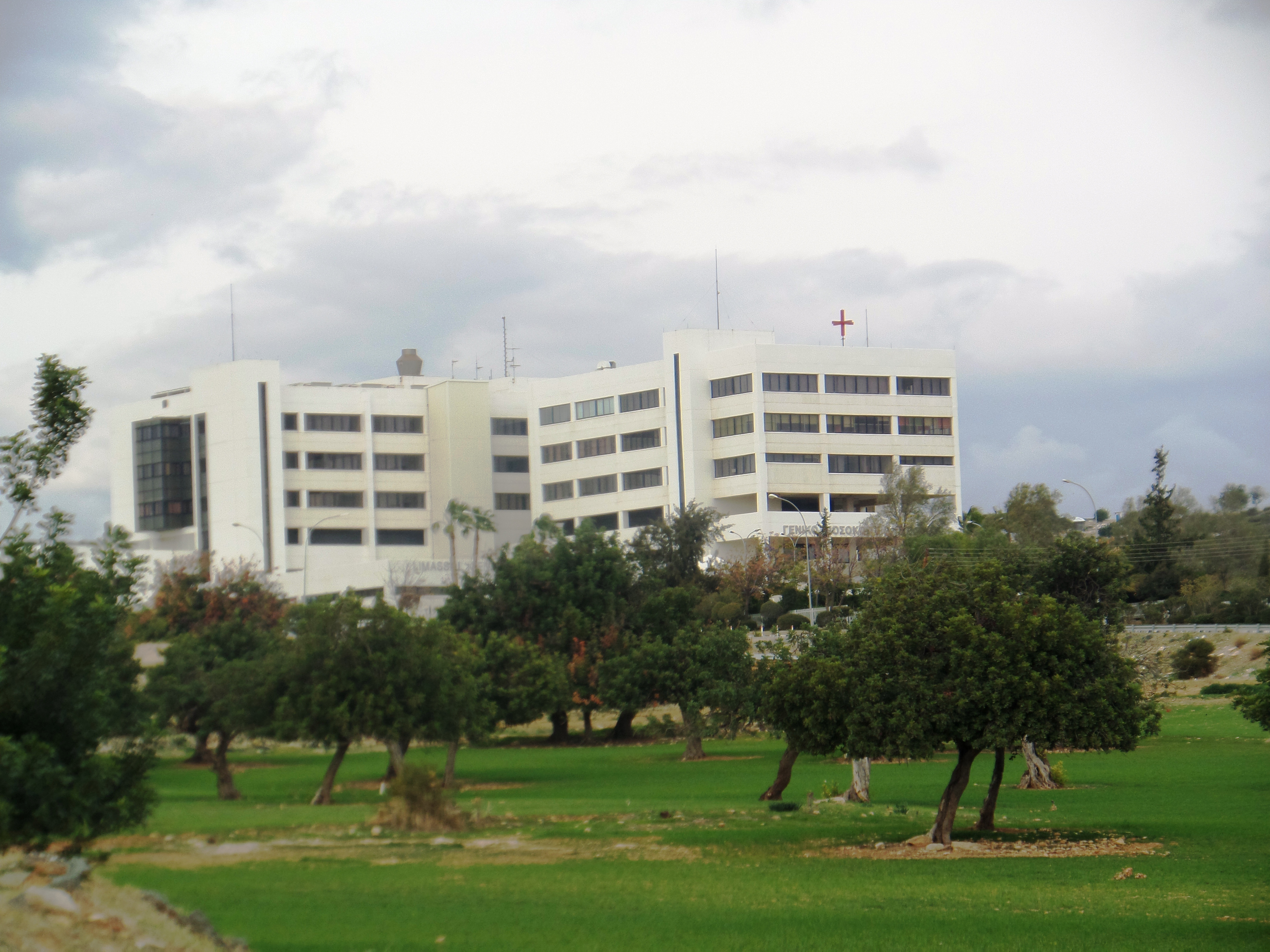 Limassol New General Hospital